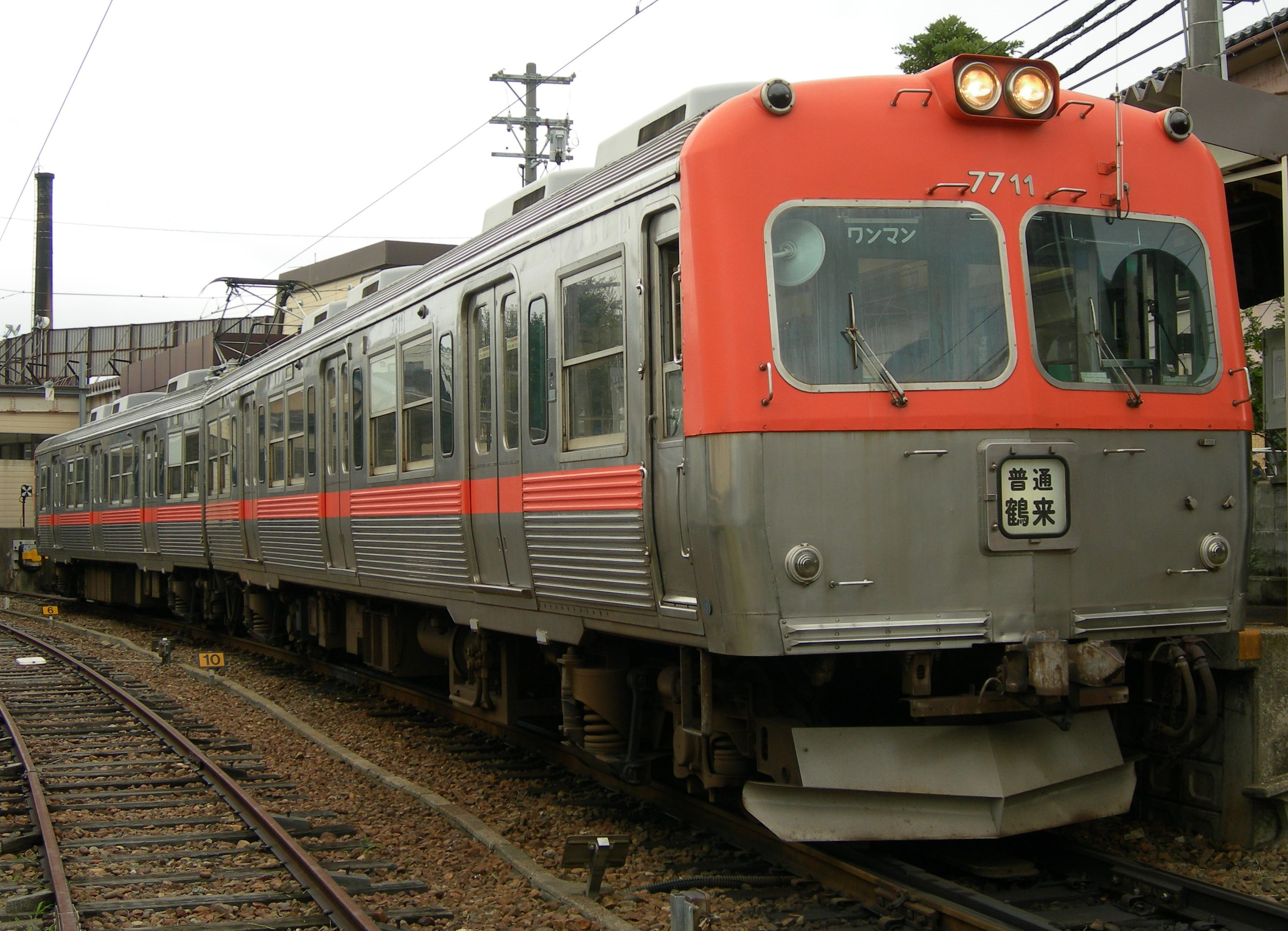 Hokutetsu 7700 series EMU set 7701 at Nomachi Station